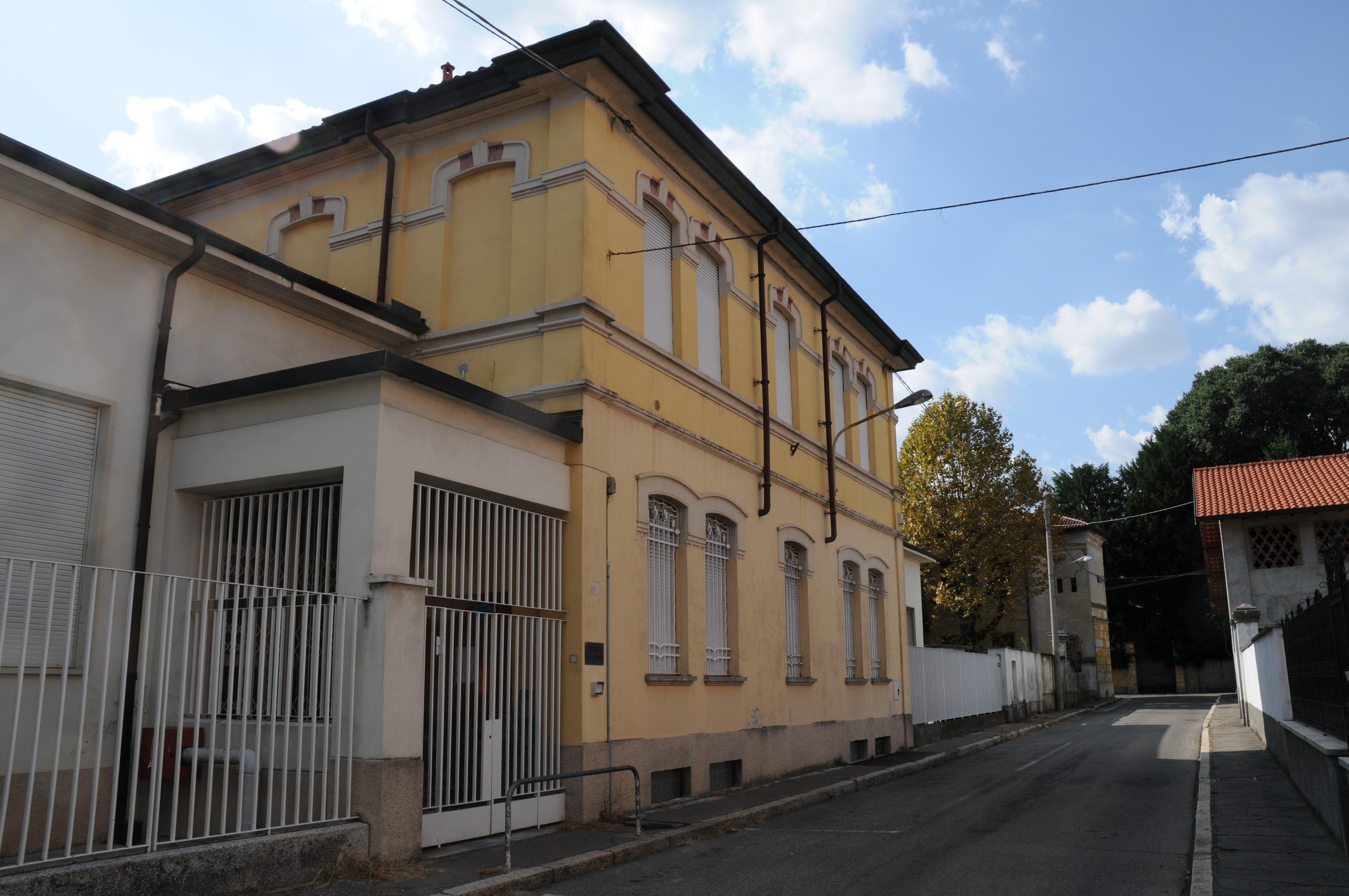 Nursery school in San Giorgio su Legnano (Italy)